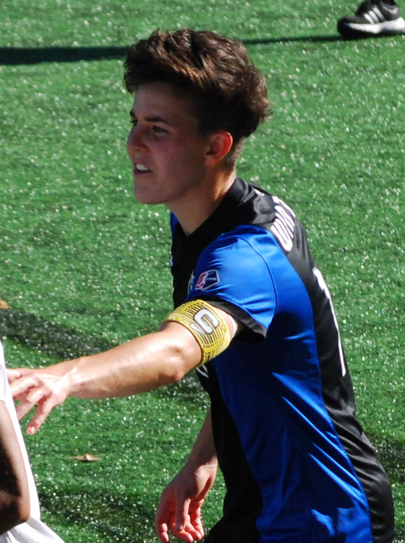 Seattle Reign FC vs Boston Breakers Memorial Stadium, Seattle Center Seattle, WA July 6, 2014